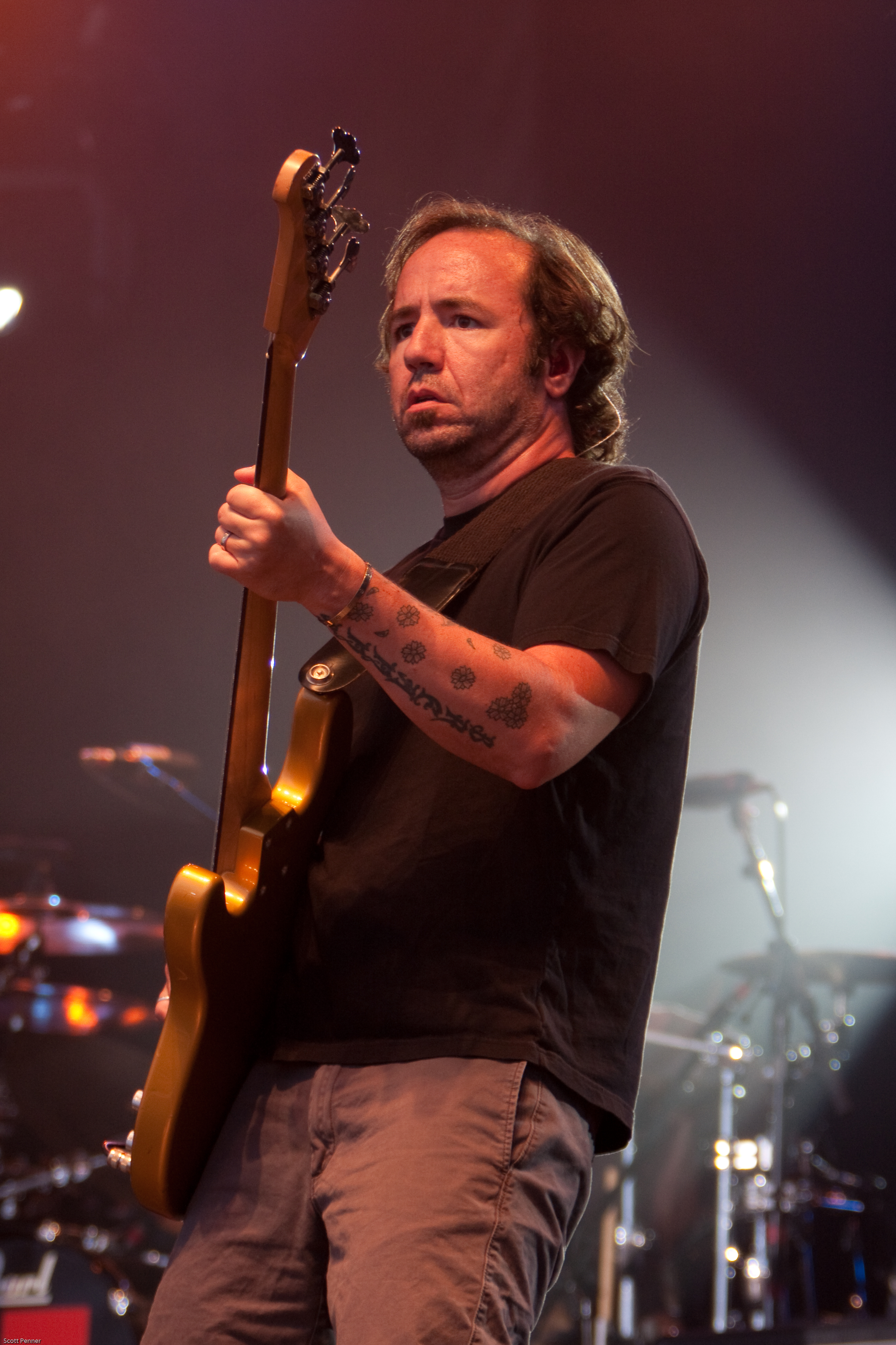 Pat Dahlheimer of The Gracious Few playing with Live in Ottowa in July 2009.